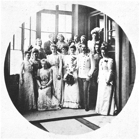 Wedding picture of Archduke Franz Ferdinand of Austria and Countess Sophie Chotek, in the intimate circle of the Chotek family. Taken on July 1, 1900 in Reichsstadt.